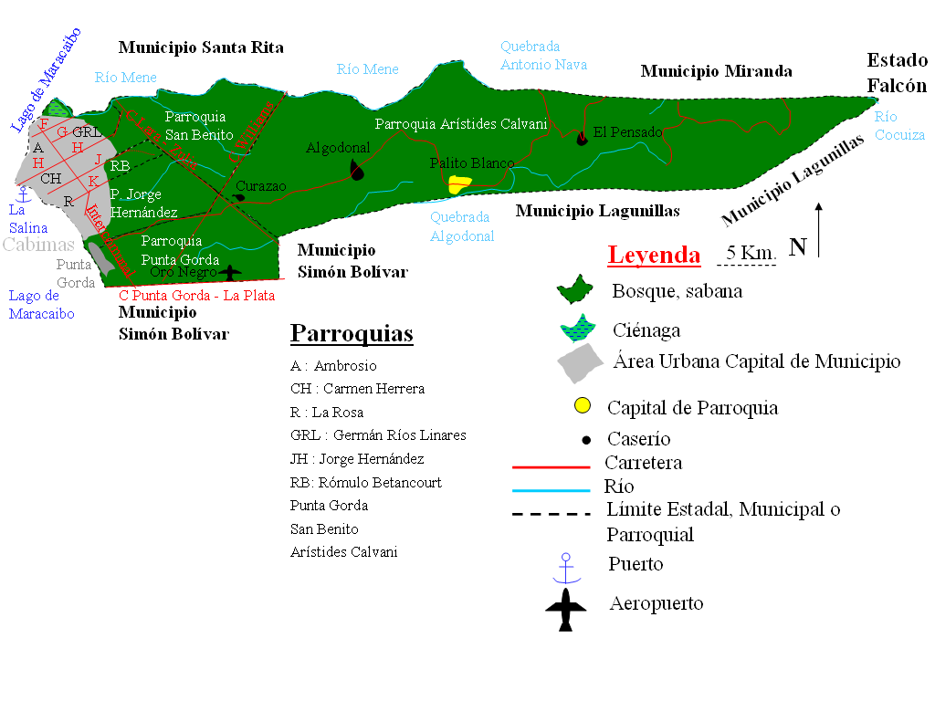 Map of Cabimas municipality one of the political subdivisions of Zulia state in Venezuela.